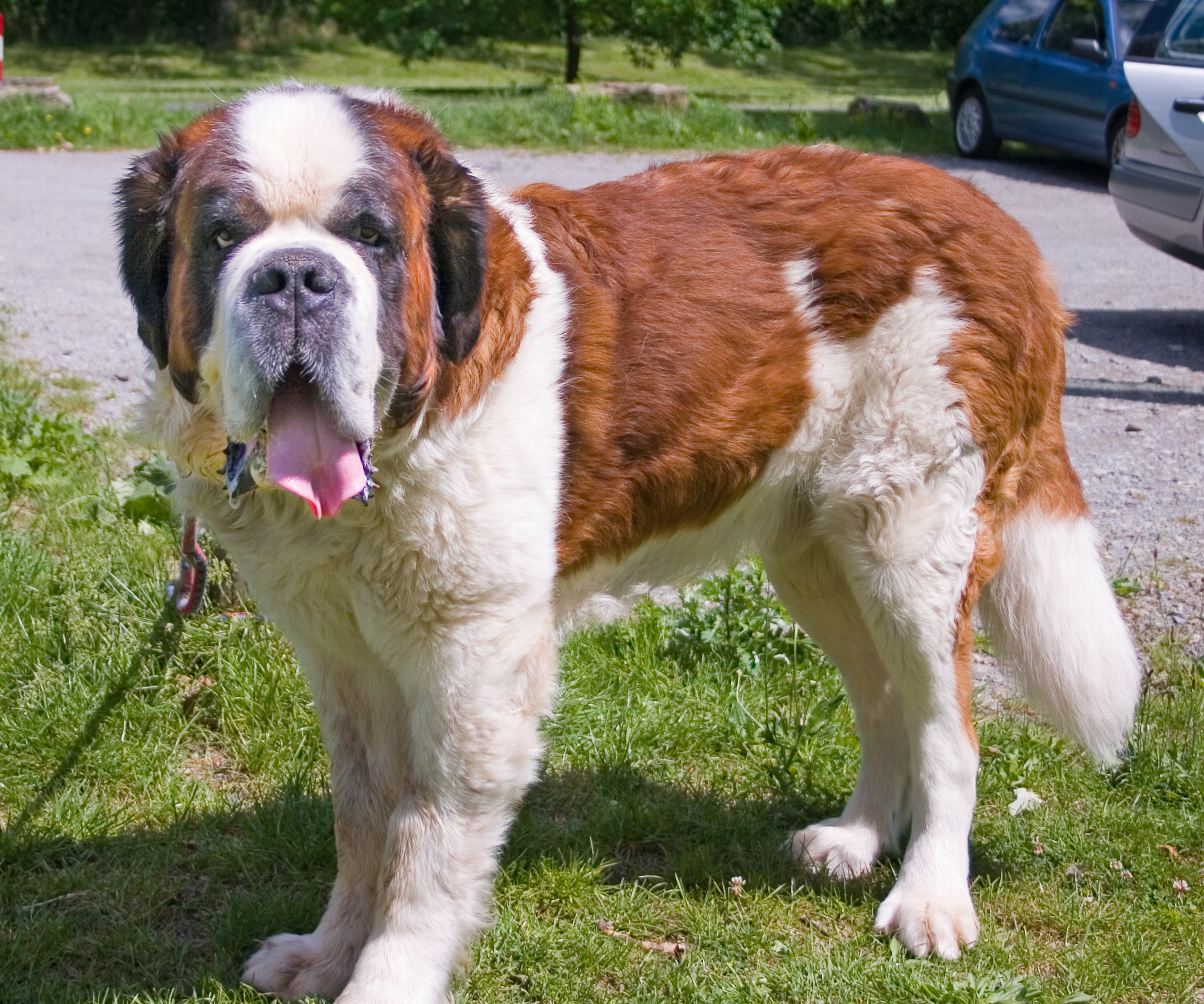 5 years old german St. Bernard dog, 70 kg weight